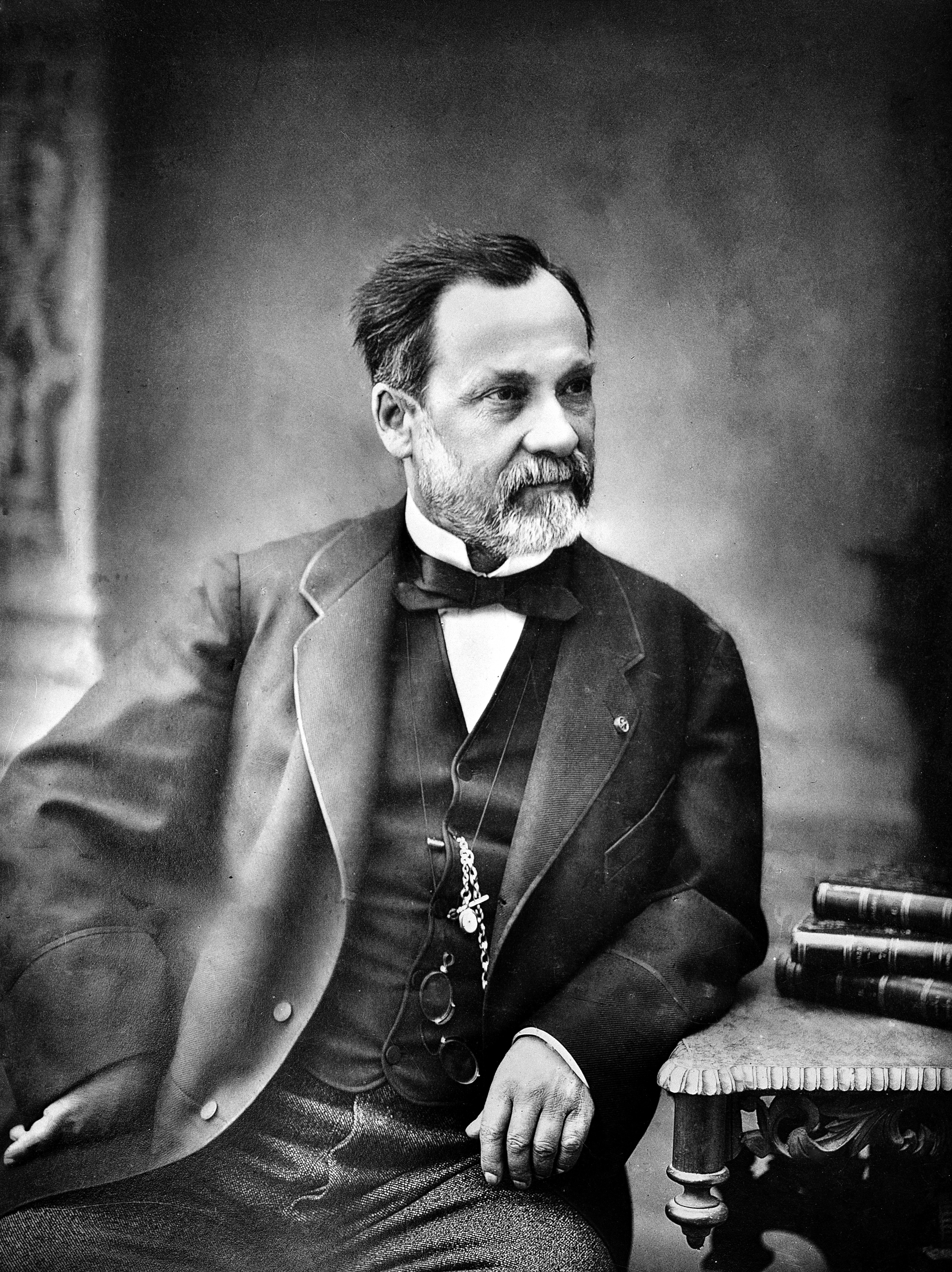 Portrait of Louis Pasteur [1822 - 1895], French microbiologist and chemist Iconographic Collections Keywords: Louis Pasteur; E. Pirou